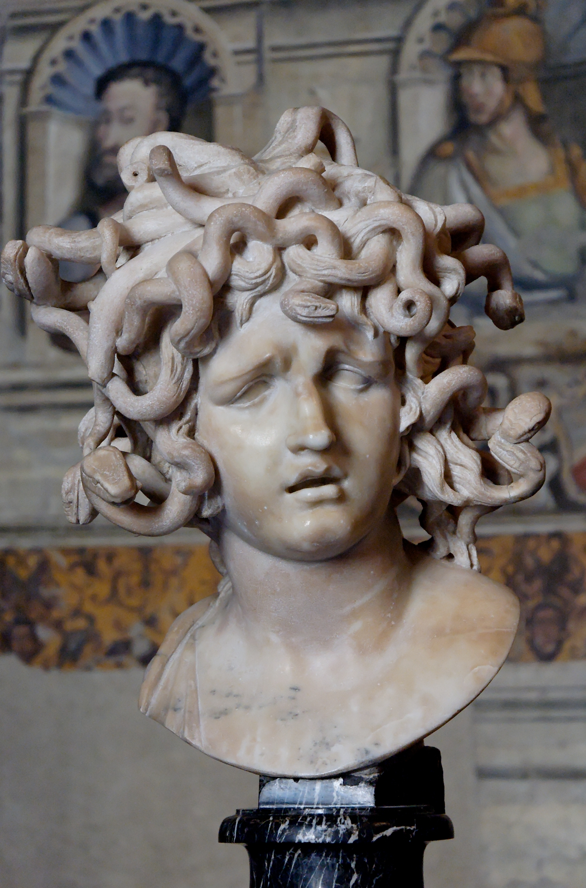 Head of Medusa. Marble, 1630.